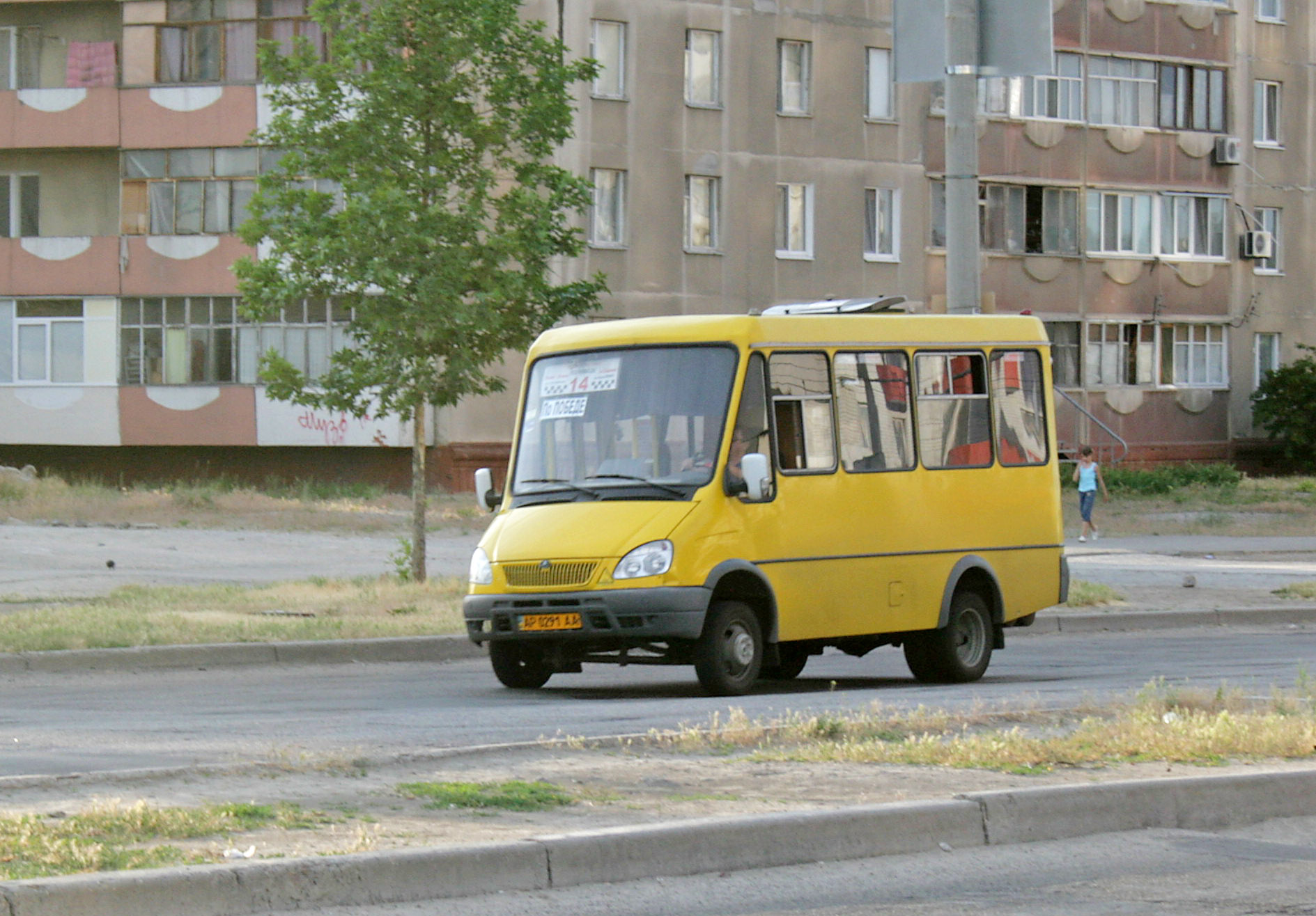 BAZ 2215 Delfin bus (AP 0291 AA) in Zaporizhia, Ukraine.